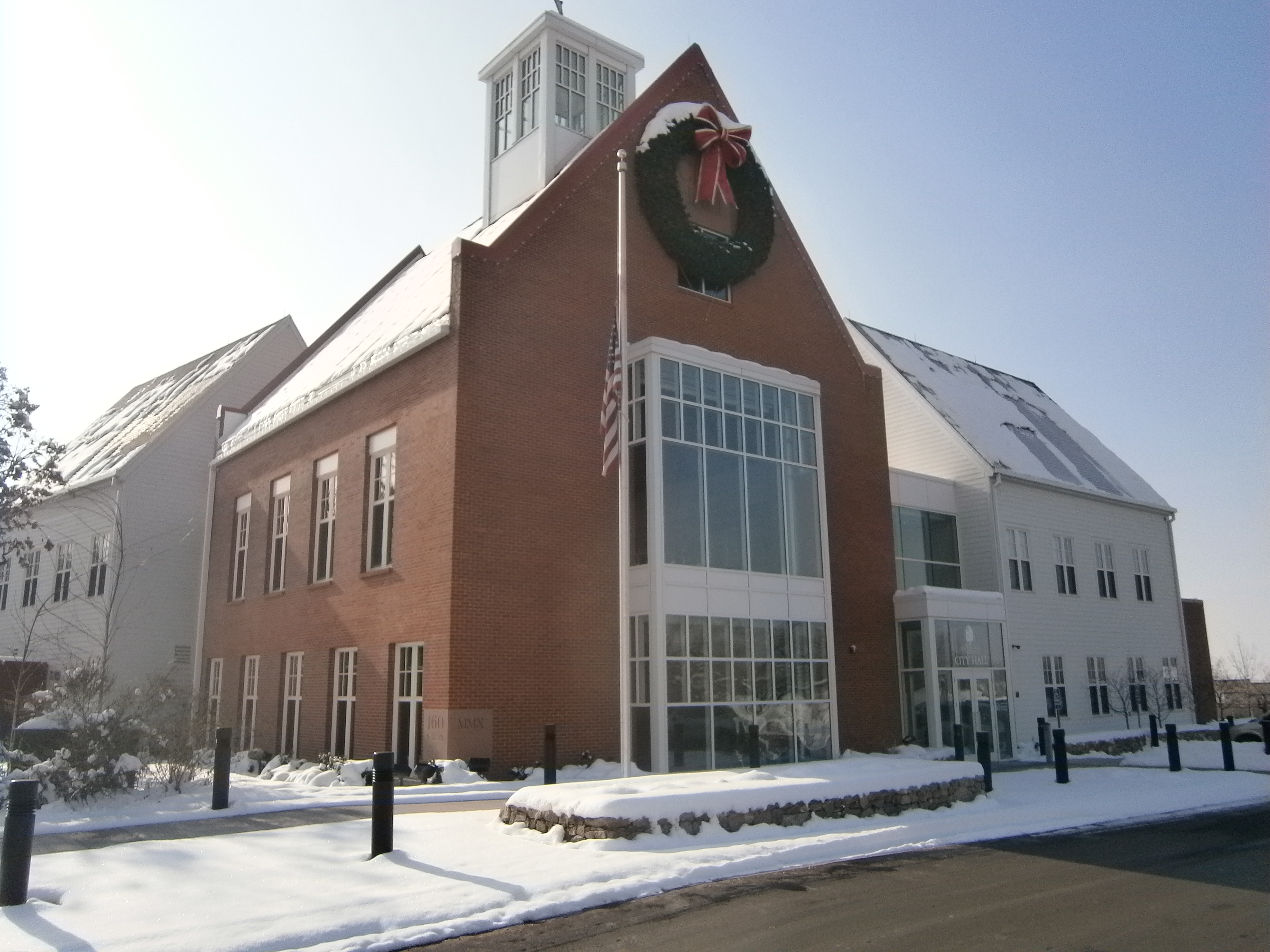 The city hall of Farmington, Utah, United States, built in 2010.